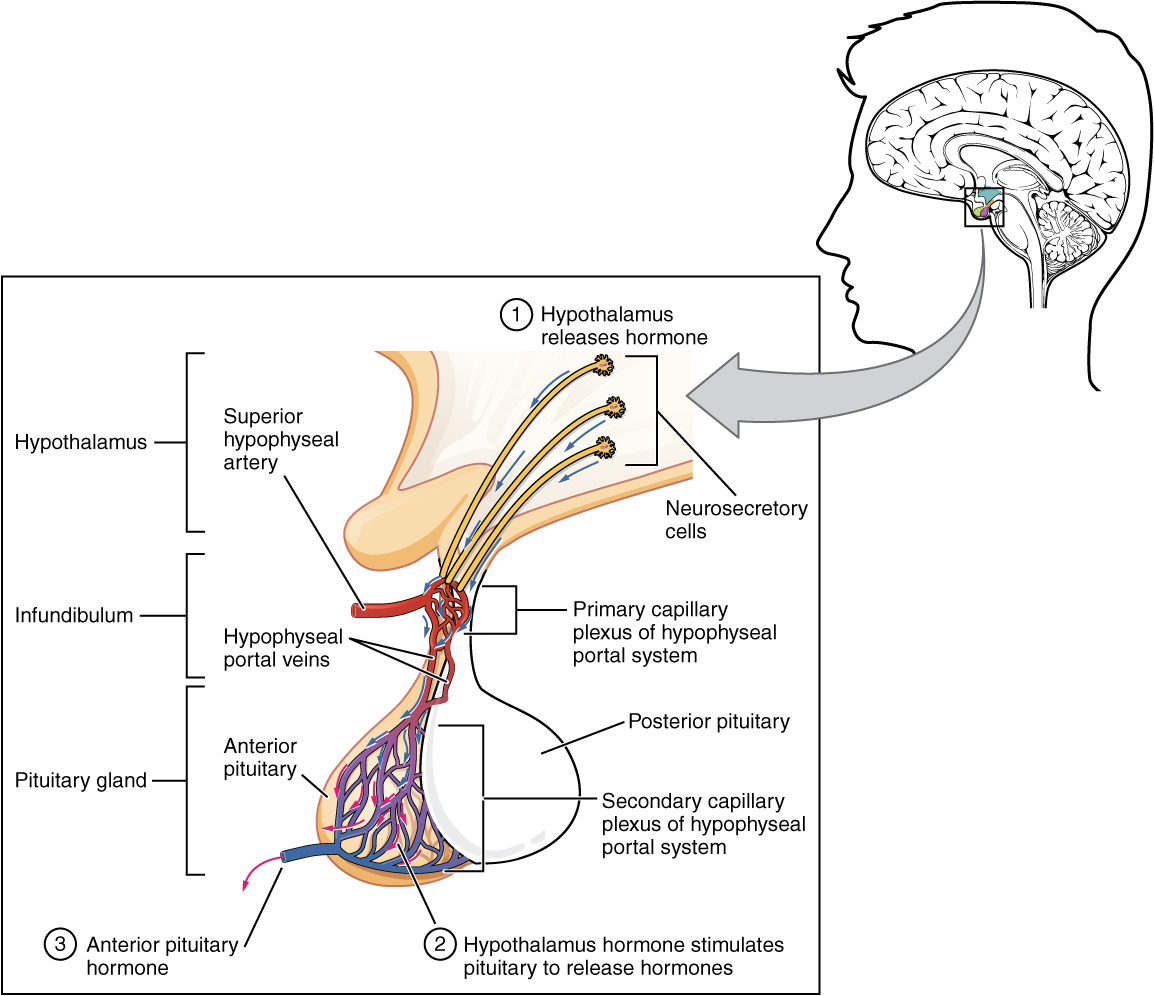 Illustration from Anatomy & Physiology, Connexions Web site. Jun 19, 2013.